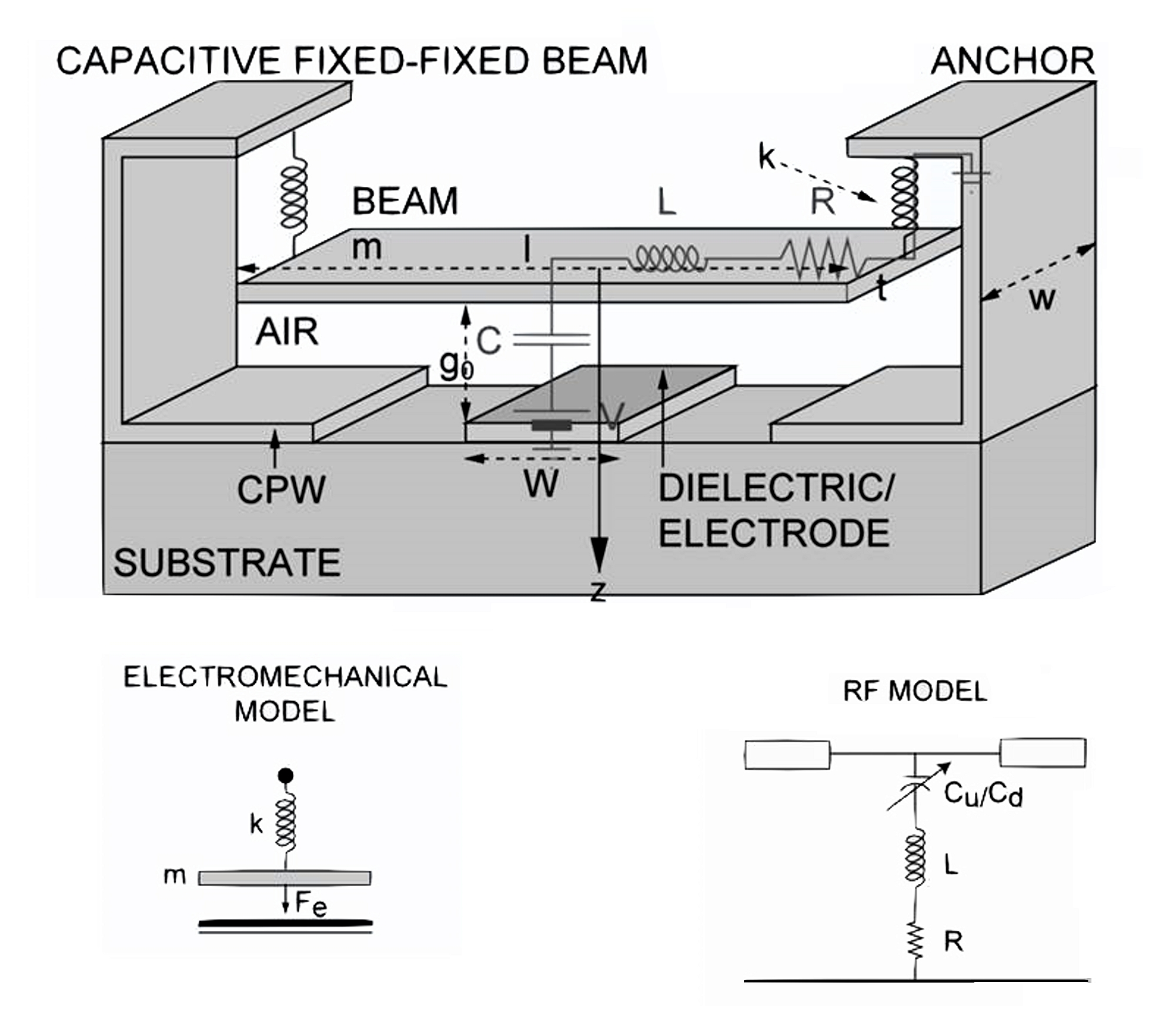 priciple picture of a MEMS capacitor/varactor